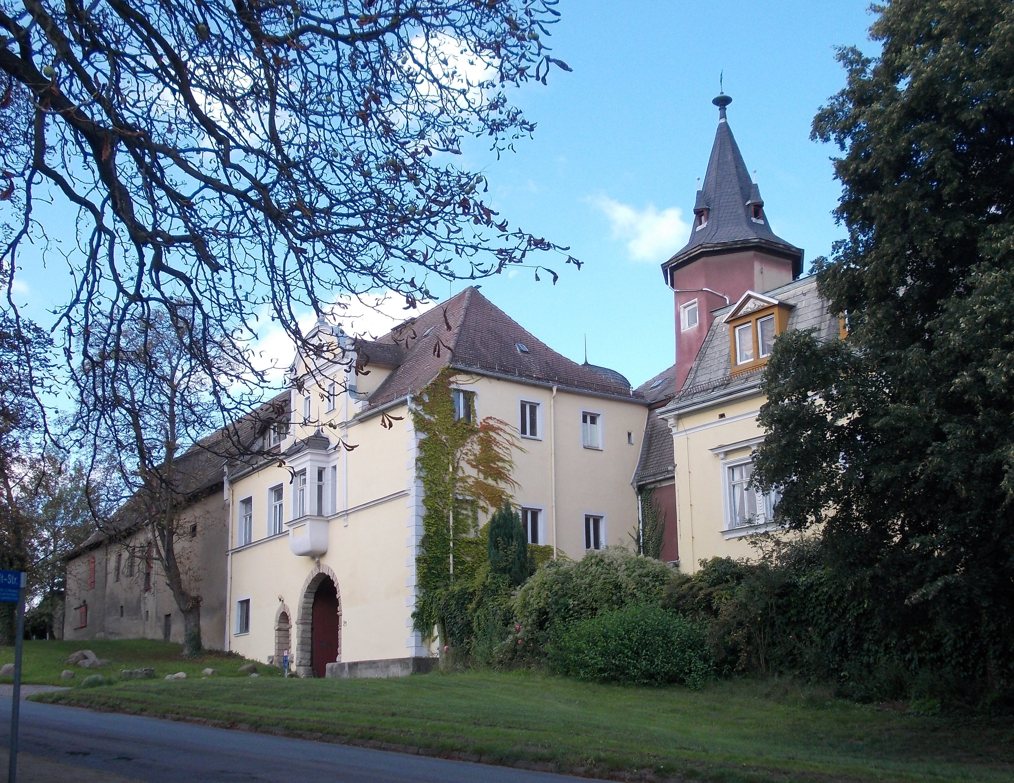 Wengelsdorf estate (Weissenfels, district: Burgenlandkreis, Saxony-Anhalt)